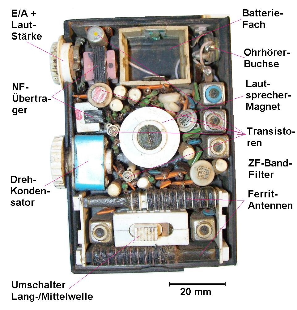 Pocket transistor radio, late 1960s to 1970s, with 5 germanium transistors, that received long wave and medium wave (AM broadcast) bands. Powered by 2 button cells supplying 3V (removed).